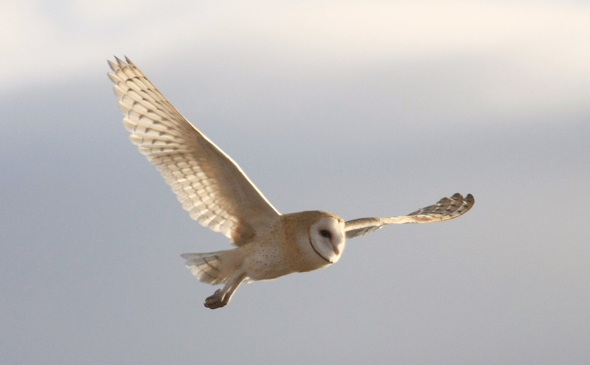 Barn Owl Tyto furcata pratincola, Pyramid Lake, Washoe County, Nevada, USA.